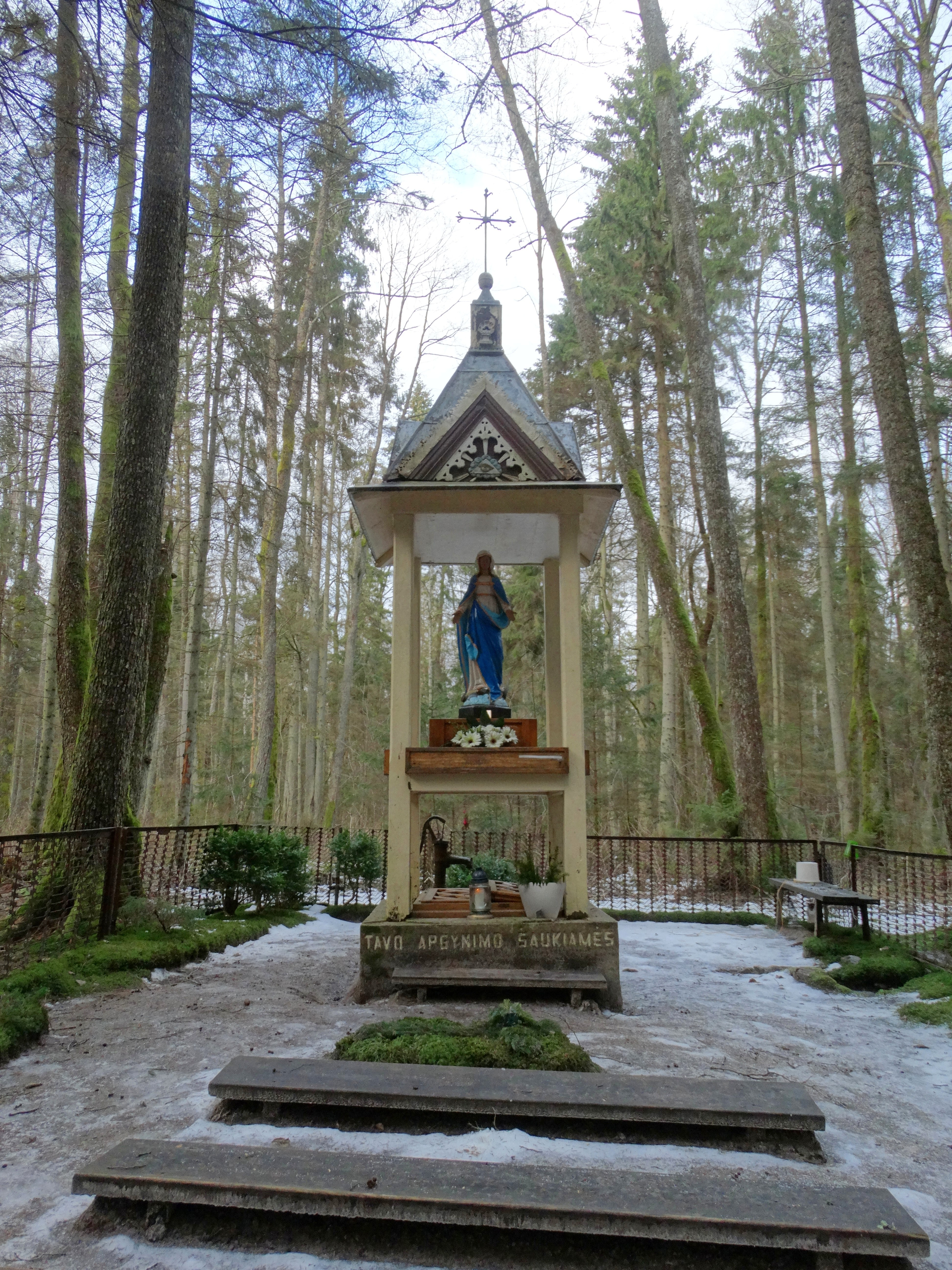 By Višakio Rūda Spring, Kazlų Rūda municipality, Lithuania